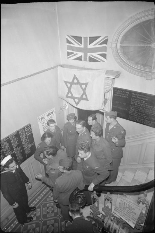 Allied Forces Celebrate Jewish New Year- Religious Celebrations at the Balfour Service Club, London, UK, 1943 A group of Allied servicemen and women crowd into the hallway at the Balfour Service Club, some standing on the staircase, following the Rosh Hashanah celebrations. On the blackboards on the left are chalked the names of all who attended the feast. According to the original caption, many people were able to meet up with old friends at the celebrations. A Union flag and a flag featuring the Star of David hang on the wall above their heads.